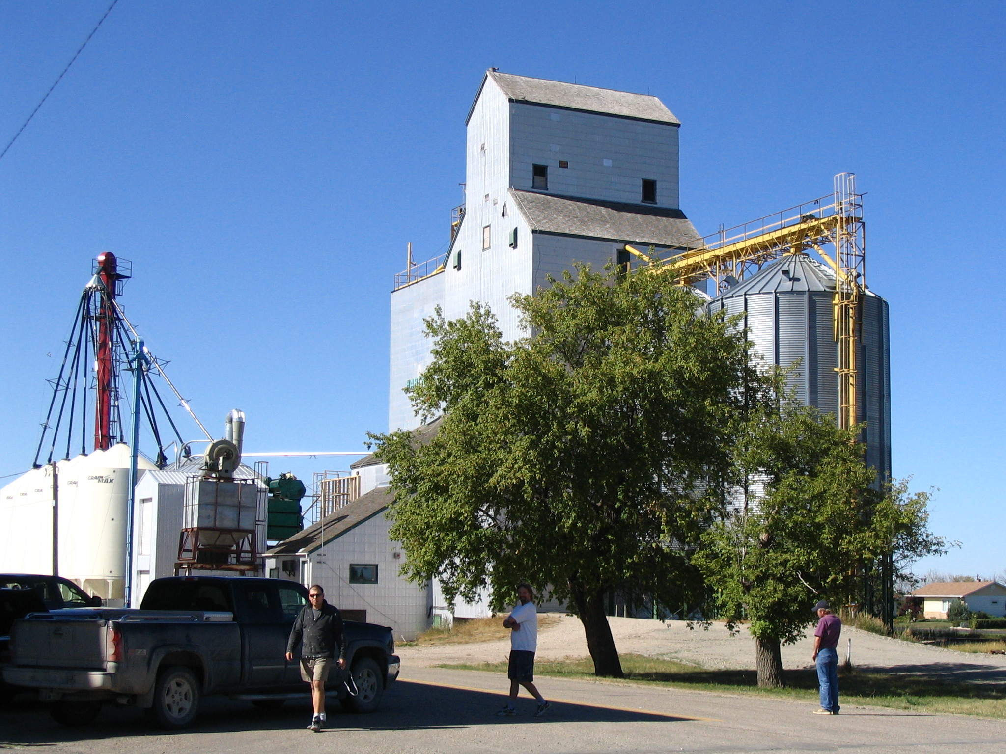 Description: The Grain Elevator in Hartney, Mantioba.